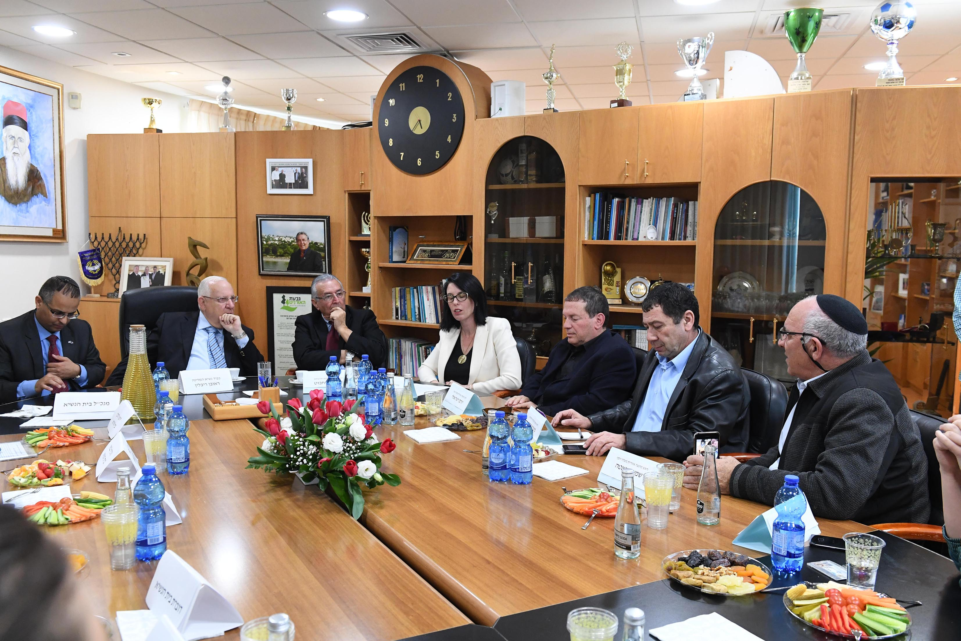 In honor of Israel 70th Independence, the office of the President of Israel, Reuven Rivlin, traveled for the first time from Jerusalem to Maalot-Tarshiha and for a full day the President held his meetings in the city. Tuesday, February 20, 2018. Photo Credit: Mark Neiman / GPO.